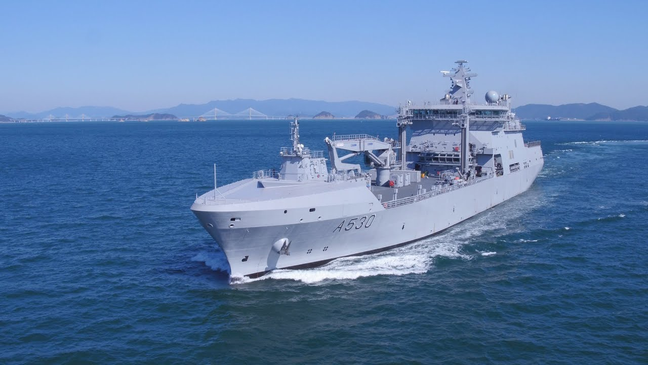 HNoMS Maud sailing away finished from the shipyard.